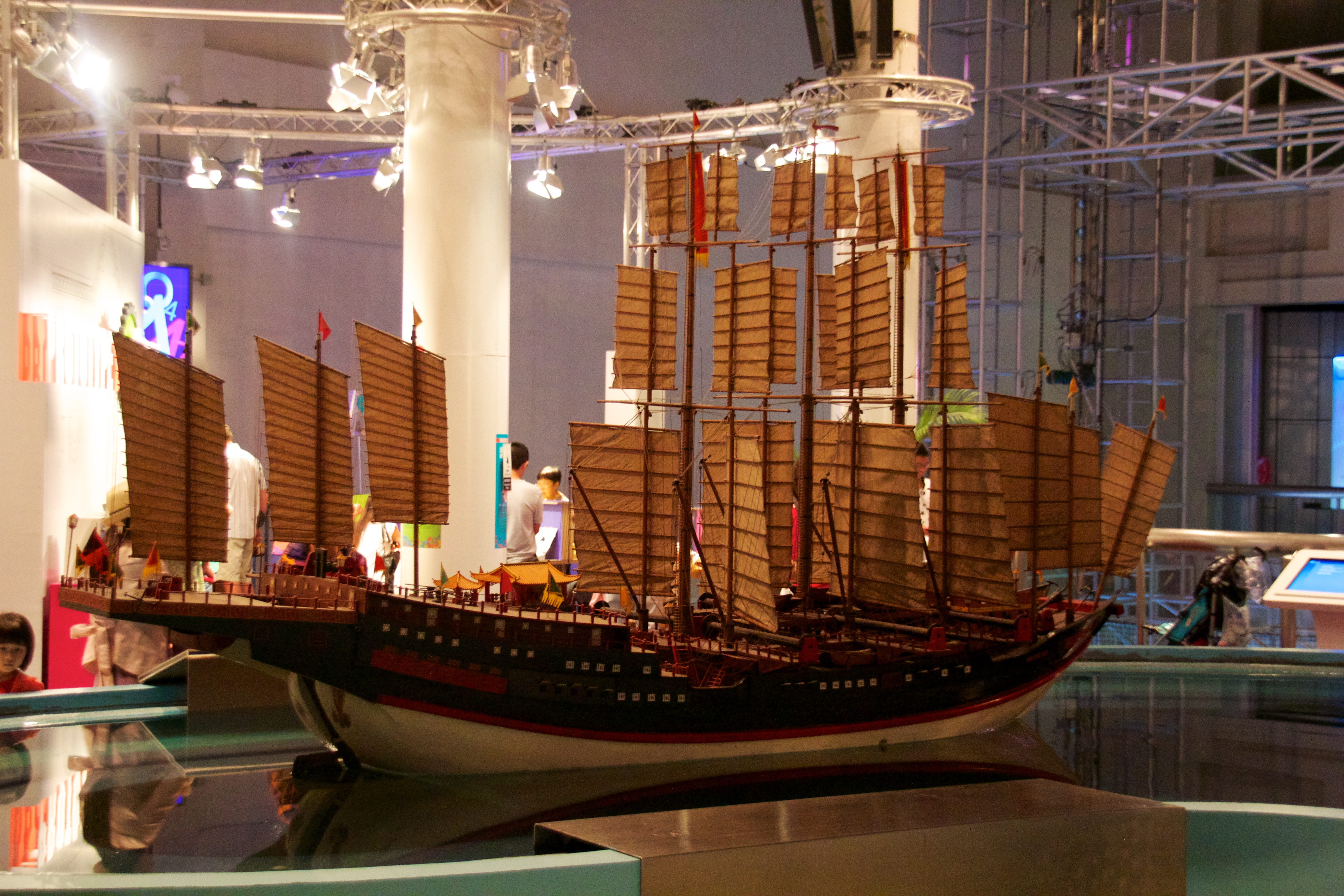 Zheng He's Treasure Ship. Model at Hong Kong Science Museum.